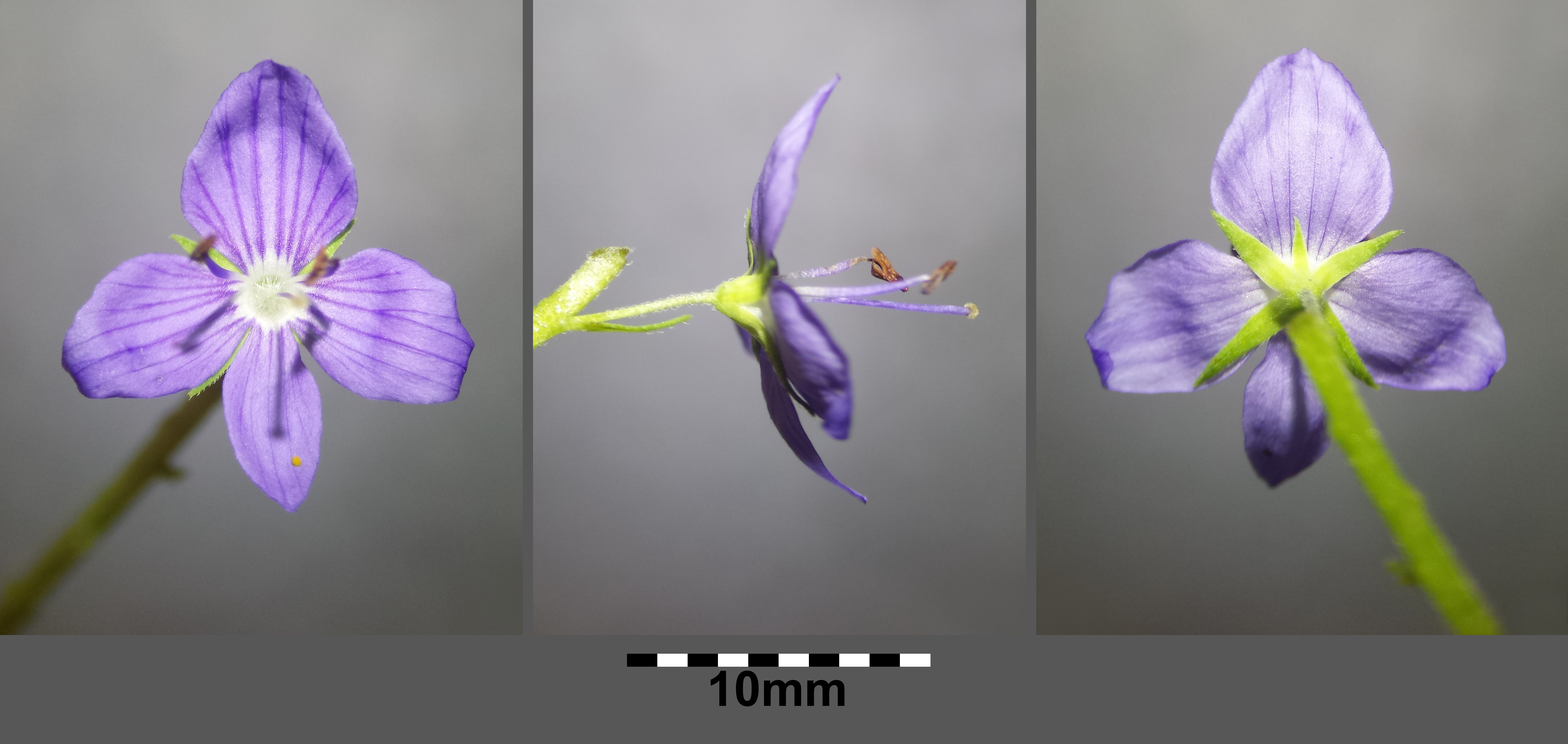 Flower Taxonym: Veronica teucrium ss Fischer et al. EfÖLS 2008 ISBN 978-3-85474-187-9 Location: Steinberg near Niederhollabrunn, district Korneuburg, Lower Austria - ca. 375 m a.s.l. Habitat: semi-dry grassland